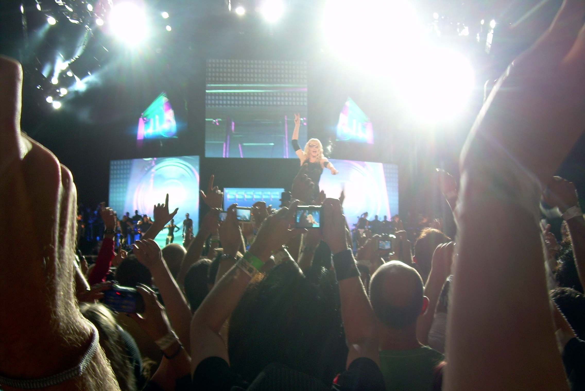 Picture of Madonna taken in Wembley during the concert